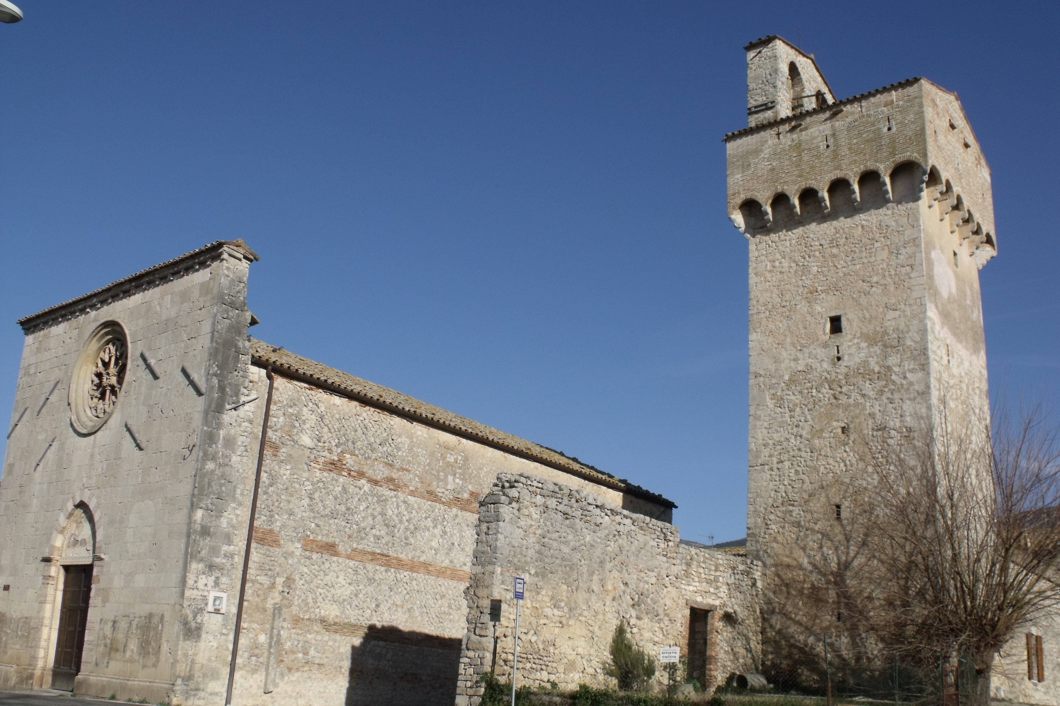 Church of Santa Maria in Pantano, Massa Martana, Province of Perugia, Umbria, Italy